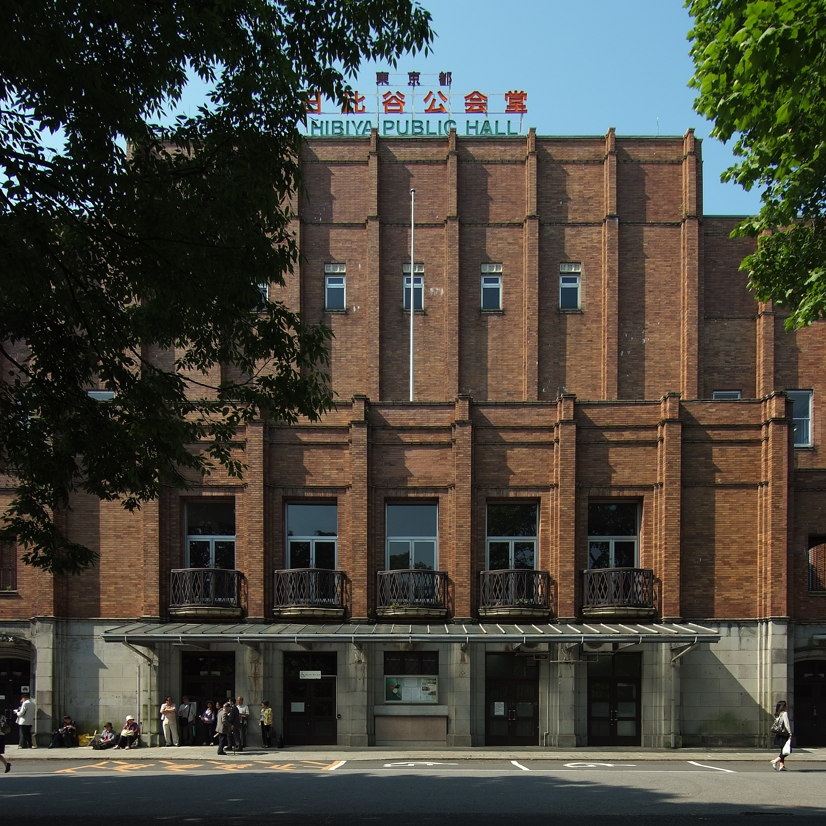 Hibiya Public Hall (日比谷公会堂 Hibiya Kōkaidō) is a building located at Hibiyakoen, Chiyoda, Tokyo, Japan. Municipal Research Building (市政会館 Shisei Kaikan) is a part of the same building.